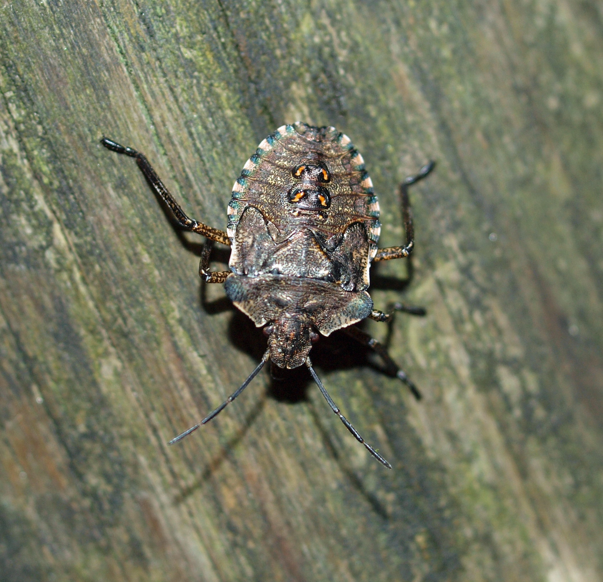 Pentatoma rufipes larva